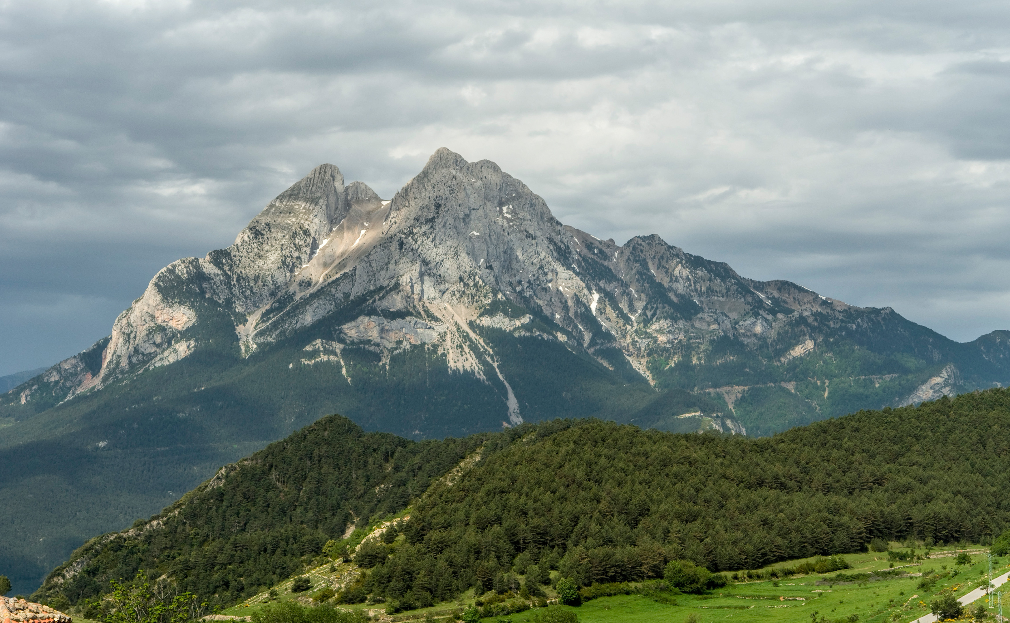 This is a a photo of a geologic site or geotope in Catalonia, Spain, with id: IEIGC-145